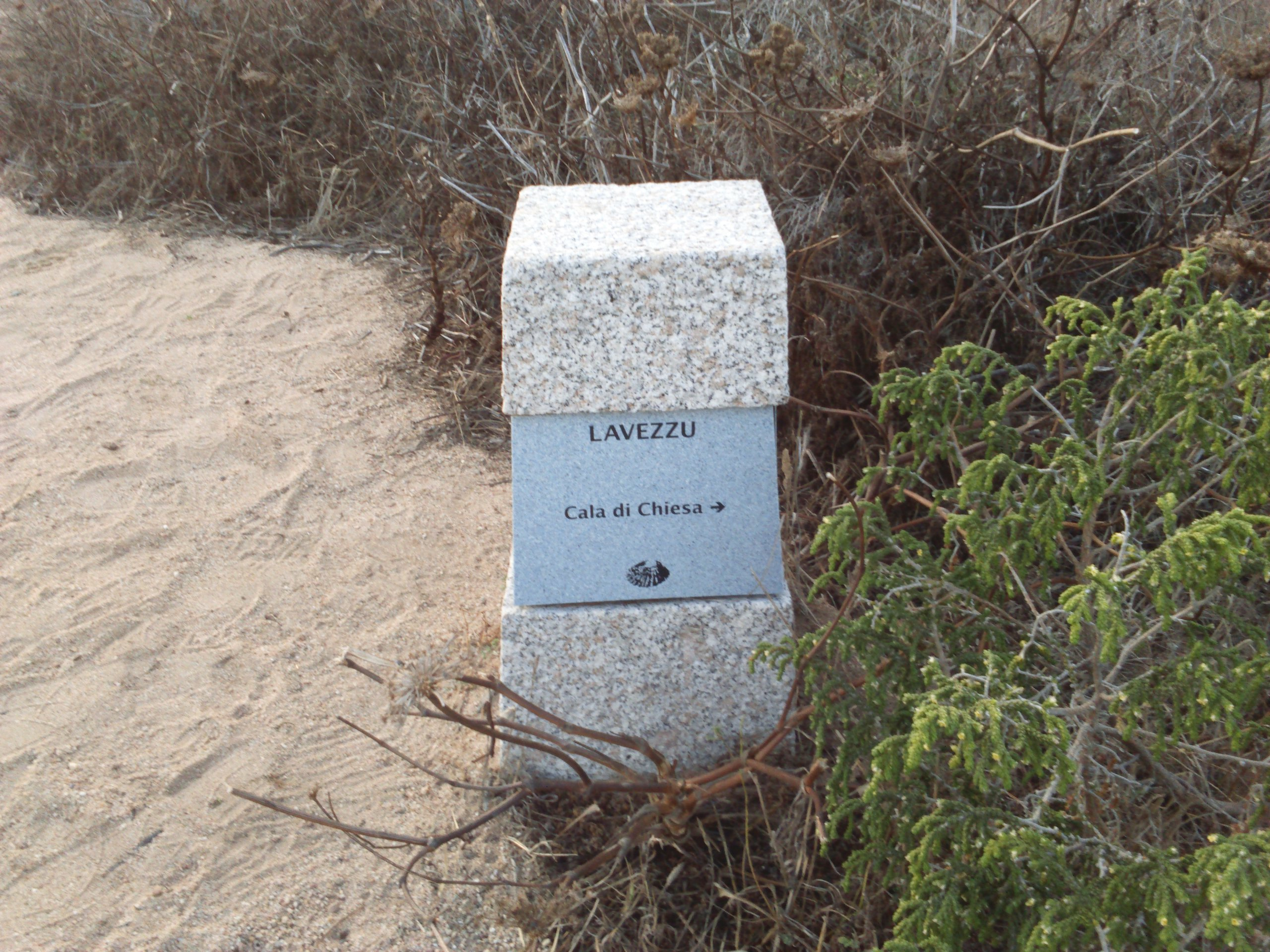 A signpost at the Lavezzu island